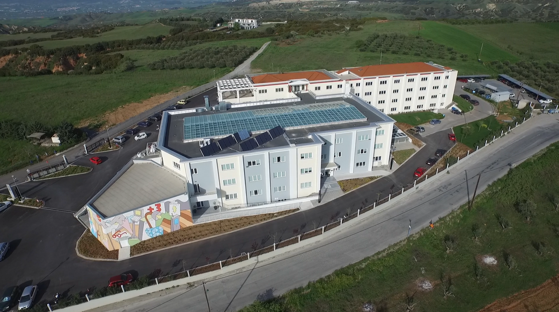 Photo of the technology center of BETA CAE Systems, in Kato Scholari, Greece.